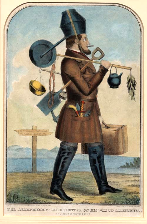 The gold mania of 1848 and 1849 inspired a number of satirical cartoons such as this comical print. The gold hunter is loaded down with every conceivable appliance much of which would be useless in California. The prospector wryly states: "I am sorry I did not follow the advice of Granny and go around the Horn, through the Straights, or by Chagres [Panama]." The Library possesses another version in black and white.